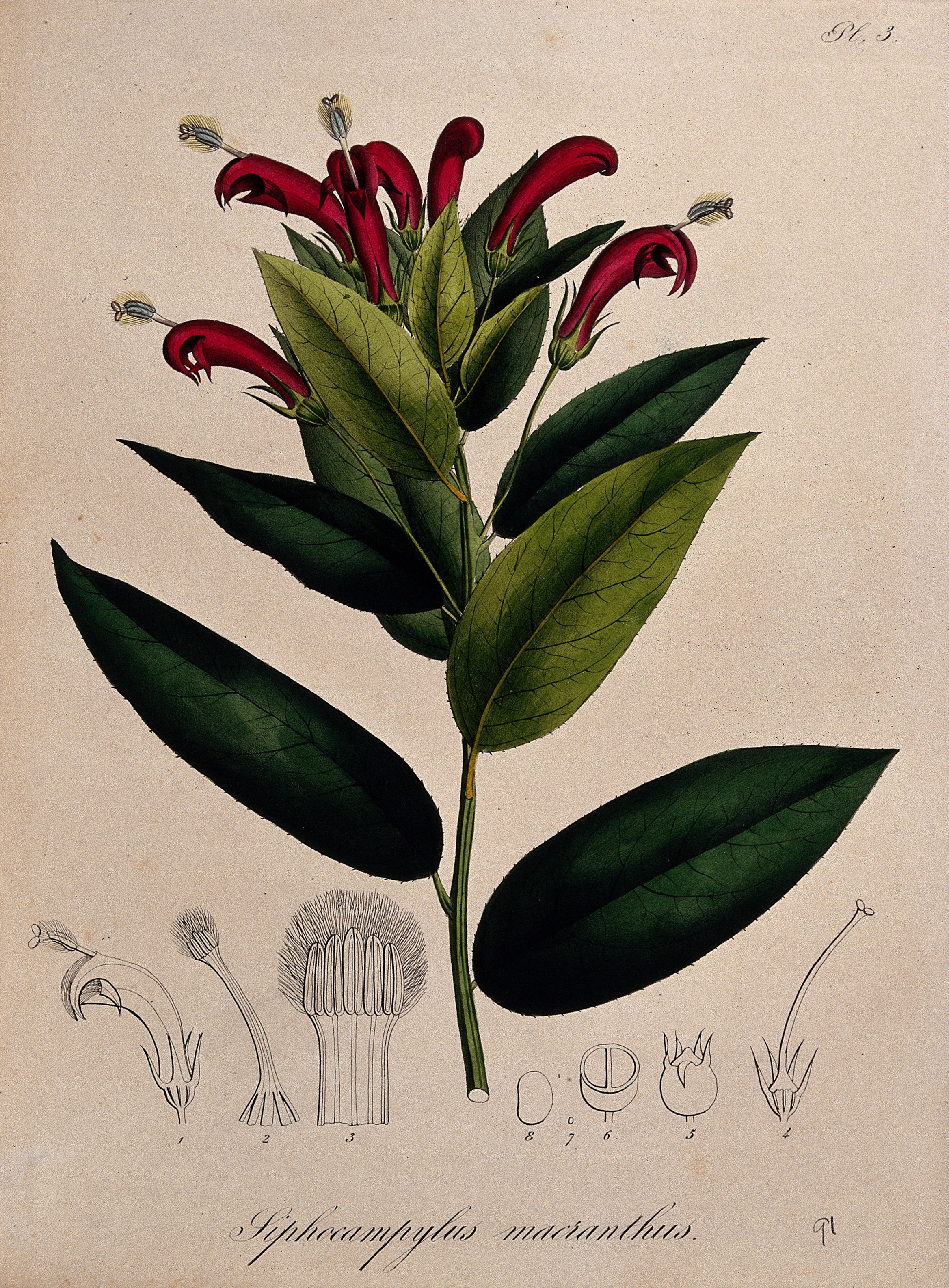 A tropical plant (Centropogon surinamensis): flowering stem and floral segments. Coloured lithograph. Iconographic Collections